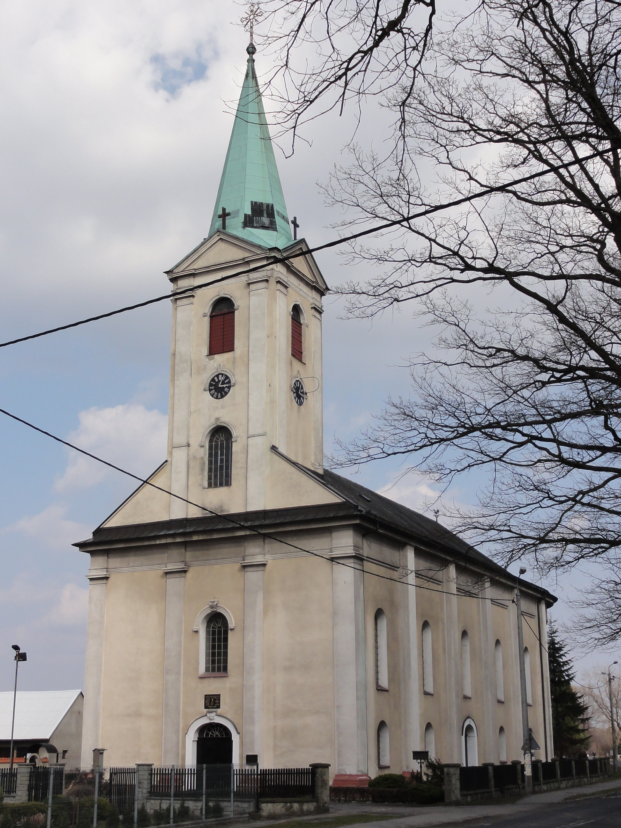 Lutheran church in Drahomischl